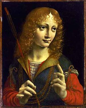 pl: Portret młodzieńca jako świętego Sebastiana en: Portrait of a Youth as Saint Sebastian